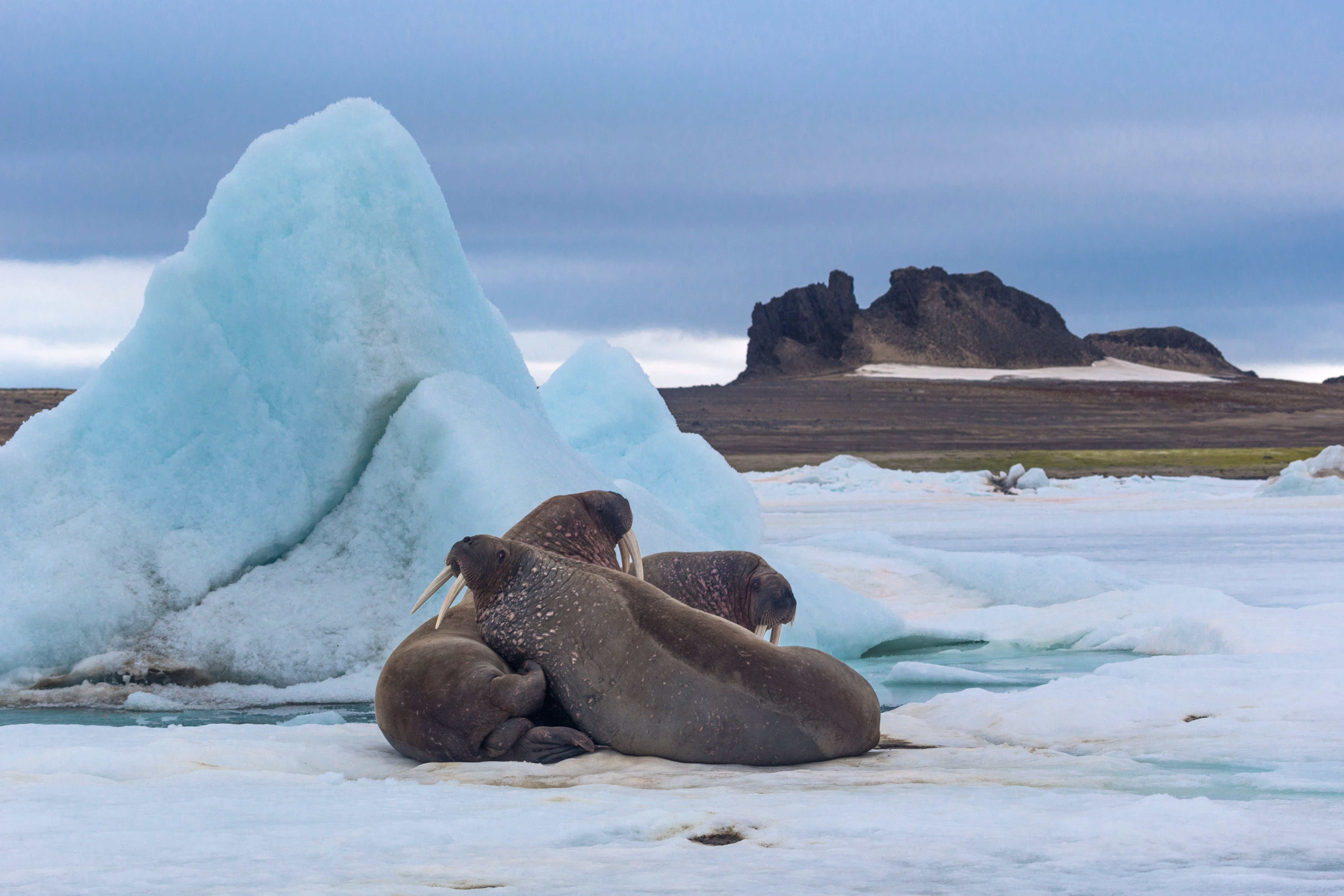 Franz Joseph Land. Heiss island.